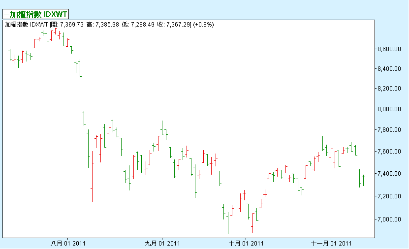 Open-High-Low-Close chart